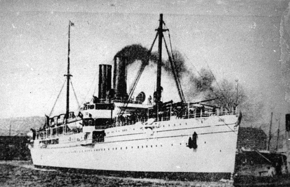 The 6,357 GRT passenger liner Indus was built in 1897. In 1904 she was renamed Magellan by her owners Messageries Maritimes. She was torpedoed south of the Italian island of Pantelleria on 11 December 1916 while in convoy. (From description supplied with photograph).